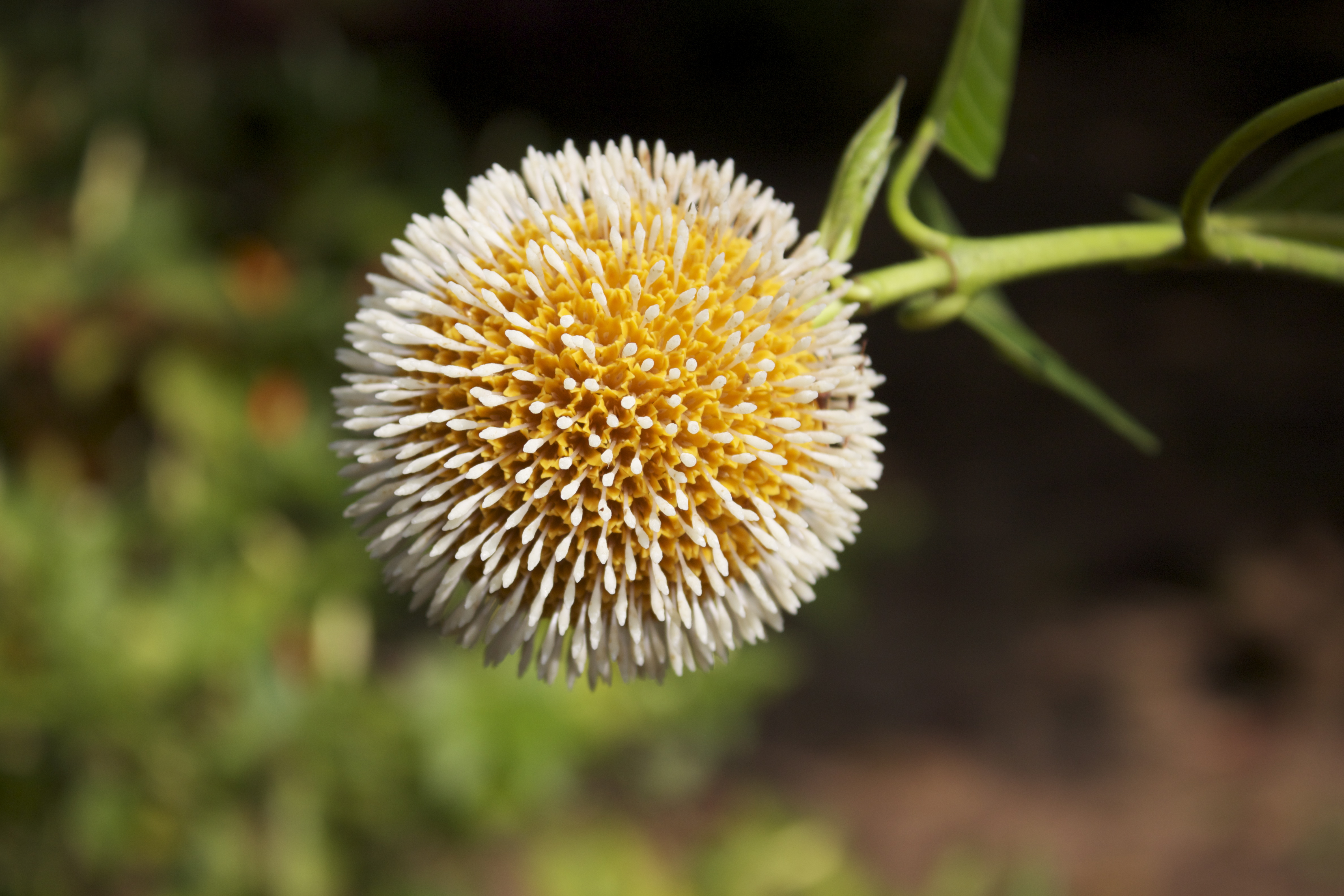 commonly called Kadam is an evergreen, tropical tree native to South and Southeast Asia. The genus name "Lamarckia" is derived from the name of French naturalist Jean-Baptiste Lamarck.